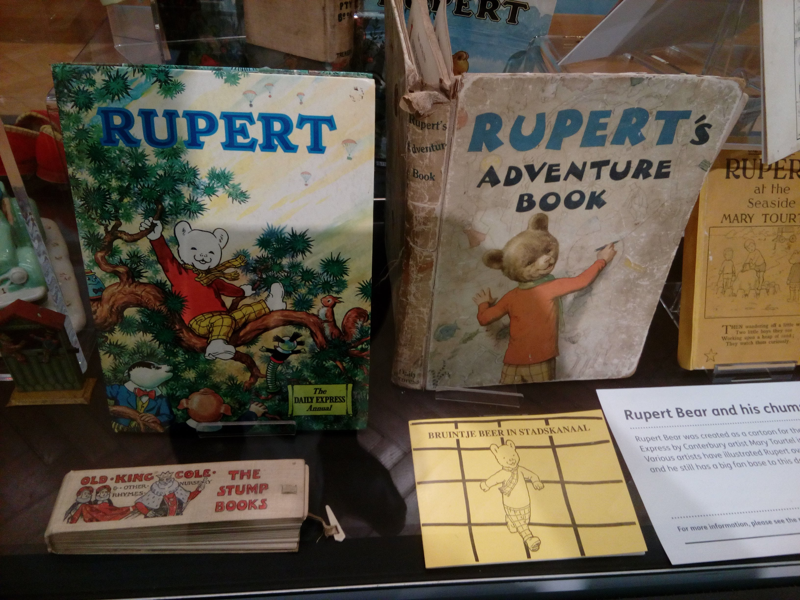 Old Rupert annuals from Alfred Bestall